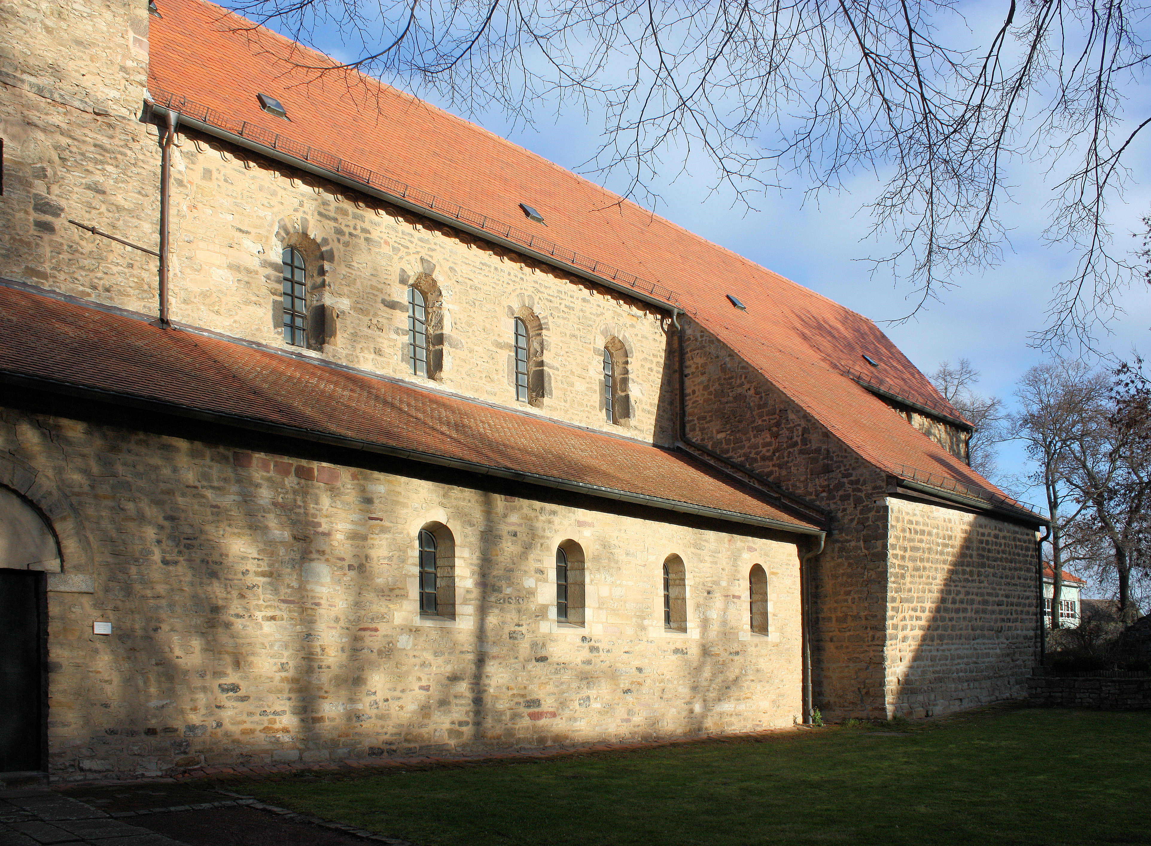 Klostermansfeld, the monastery church St. Mary